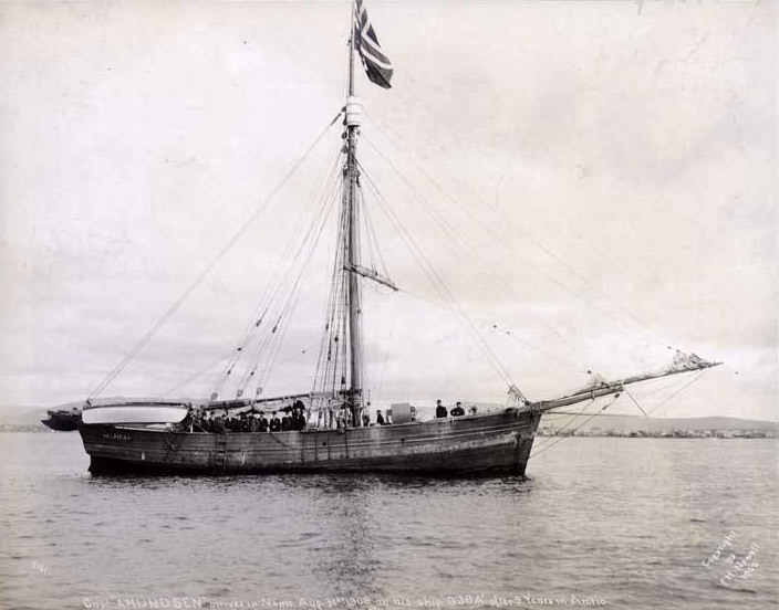 Roald Amundsen arrives at Nome, Alaska